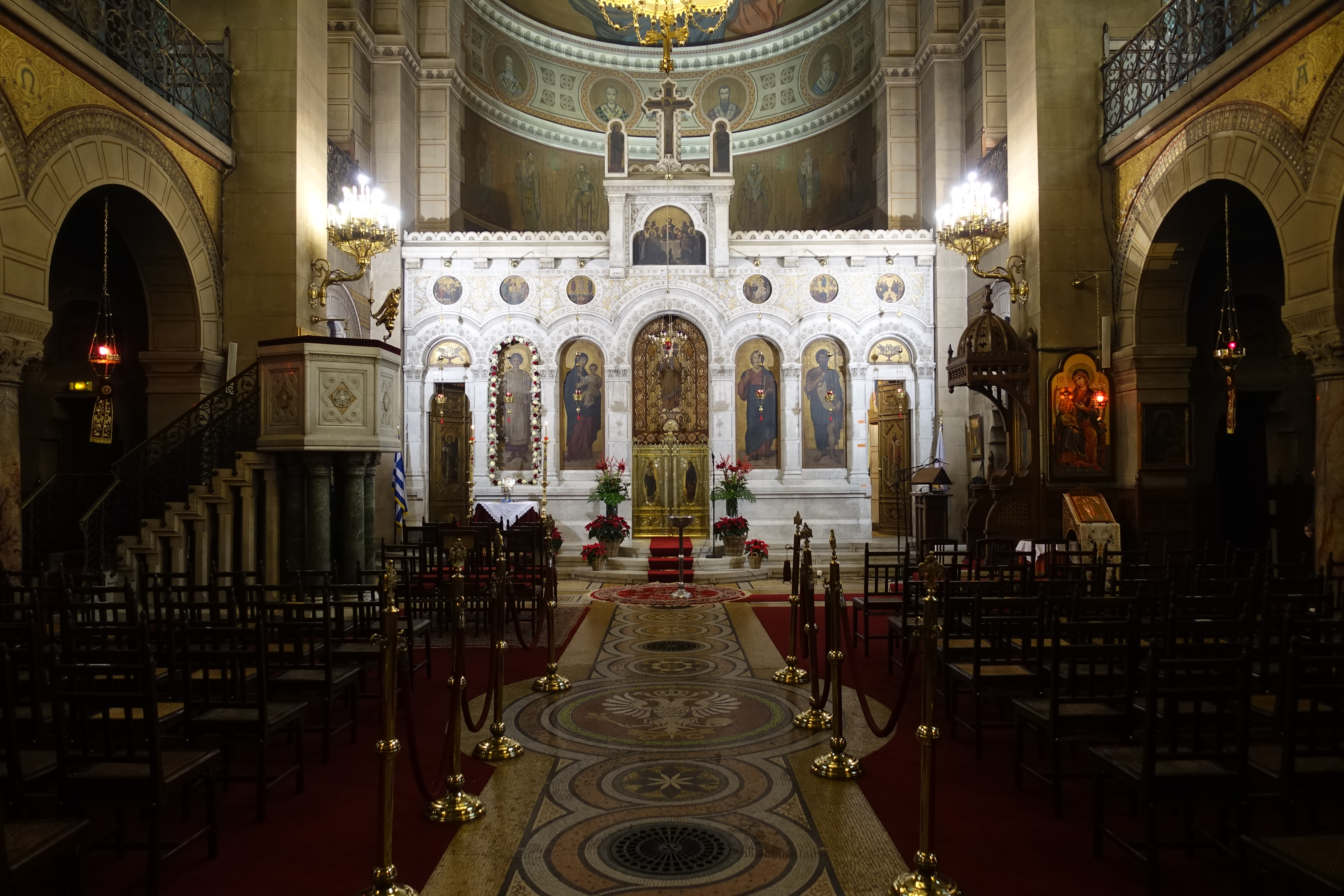 Eglise Orthodoxe Grecque, a Orthodox church in Paris, France. Address: 7 Rue Georges Bizet, 75016 Paris, France.